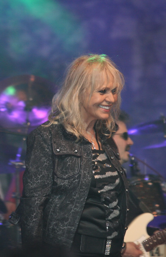 Éva Csepregi.